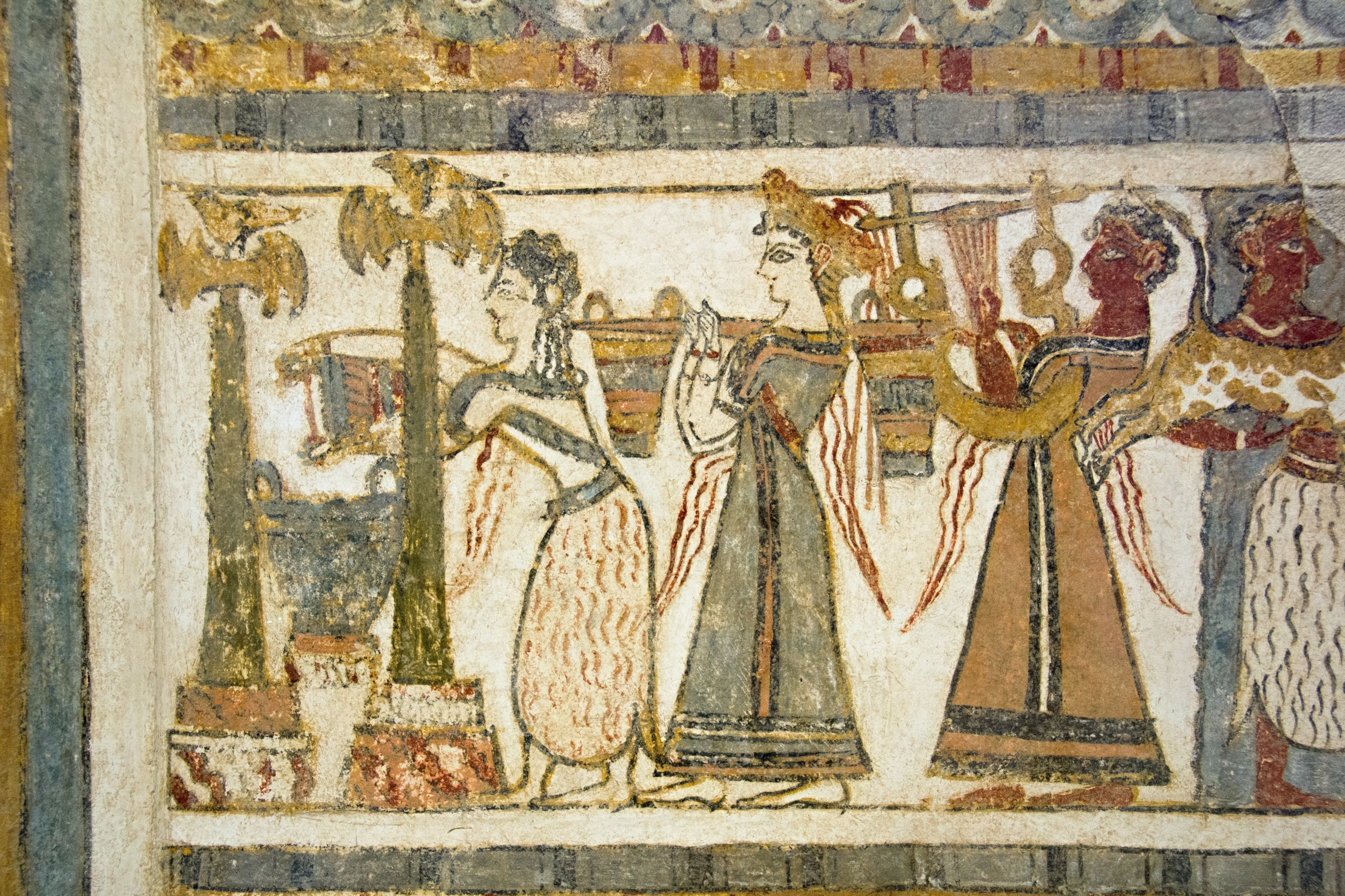 The sarcophagus of Agia Triada, long side 2. Libations and a procession of women. Above the vessel sits golden birds. Playing of lyre, said be the oldest representation of the lyre. 1370-1320 BC. Archaeological Museum of Heraklion.